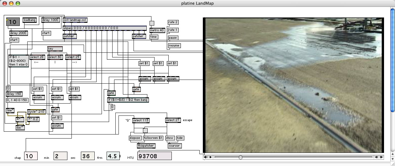 This is an informative sample of a Max patcher with a small MSP part visible on the left side. Max/MSP is a software predominently used for multimedia works programming. Here one can see that a Max window is a two-dimensional space covered by boxes named objects linked together. Information doesn't flow continuously in the belts as in electric wires: objects sometimes send messages to others they are connected with. This is one of the different patchers we made for a project in 2002, it was used for testing the chapter list of an interactive video installation named LandMap.